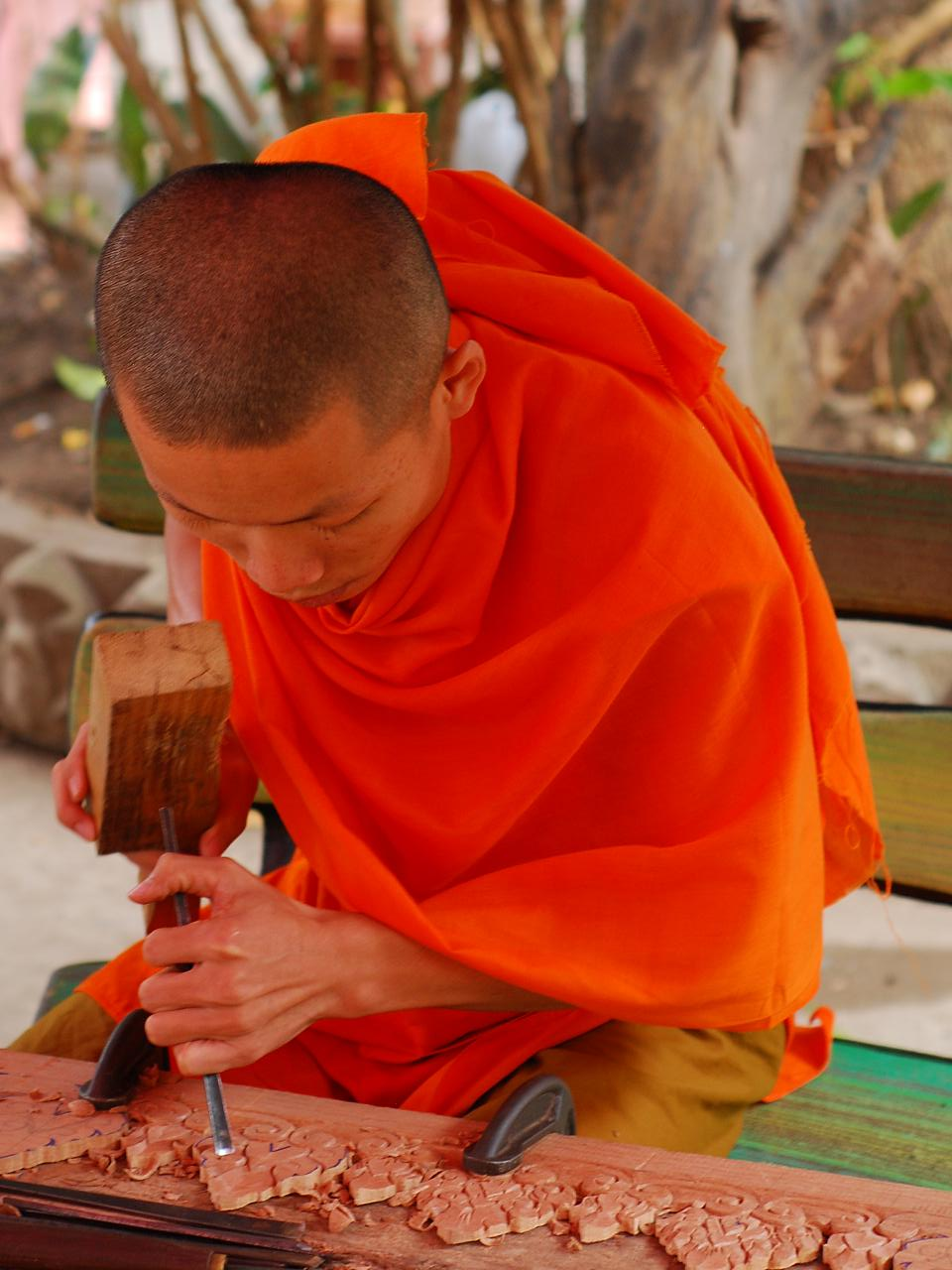 A Buddhist monk is carving.